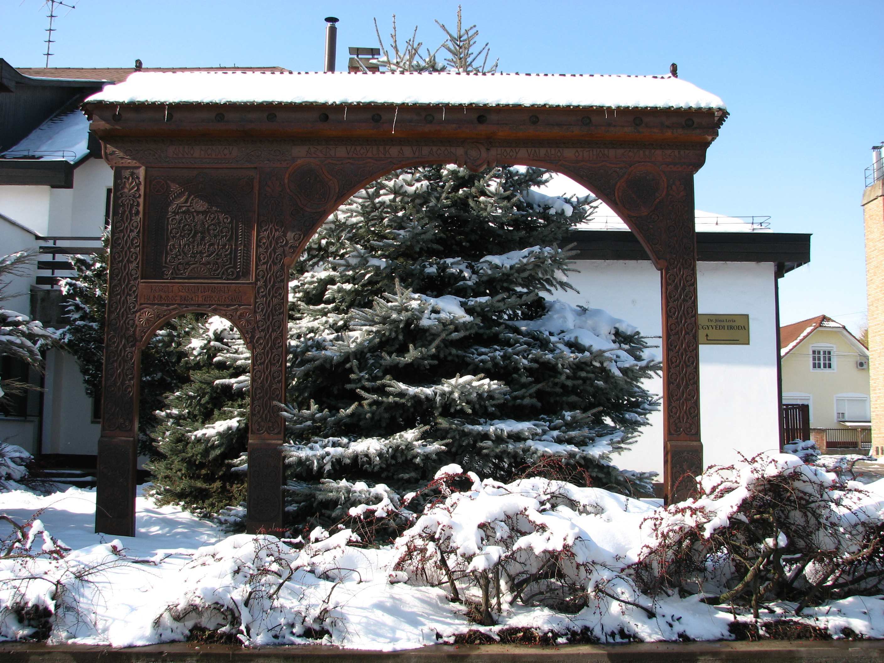 A so called Székely Gate in Hajdúdorog, Hungary. The gate was erected in 1995 when Hajdúdorog and the Romanian city of Odorheiu Secuiesc became twin cities. On the top of the gate the line says: "We were born to this world to find our home somewhere."